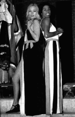 Actresses Solvi Stubing and Carla Brait in the backstage of the Italian show Spaccaquindici